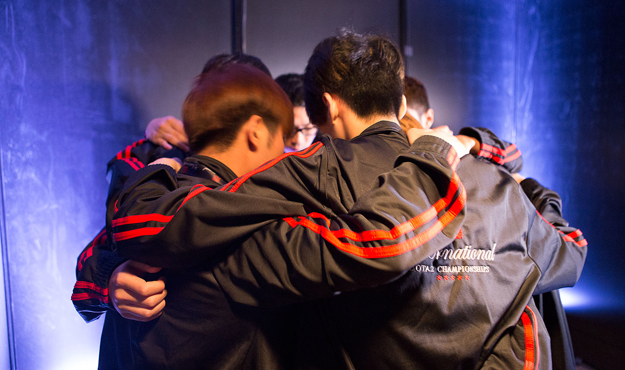 Newbee psych themselves up before TI4-Final.